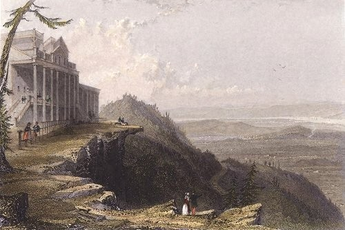 View From The Mountain House by W.H. Bartlett, 1836. Engraving by R. Branford, published in "American Scenery", London 1838.